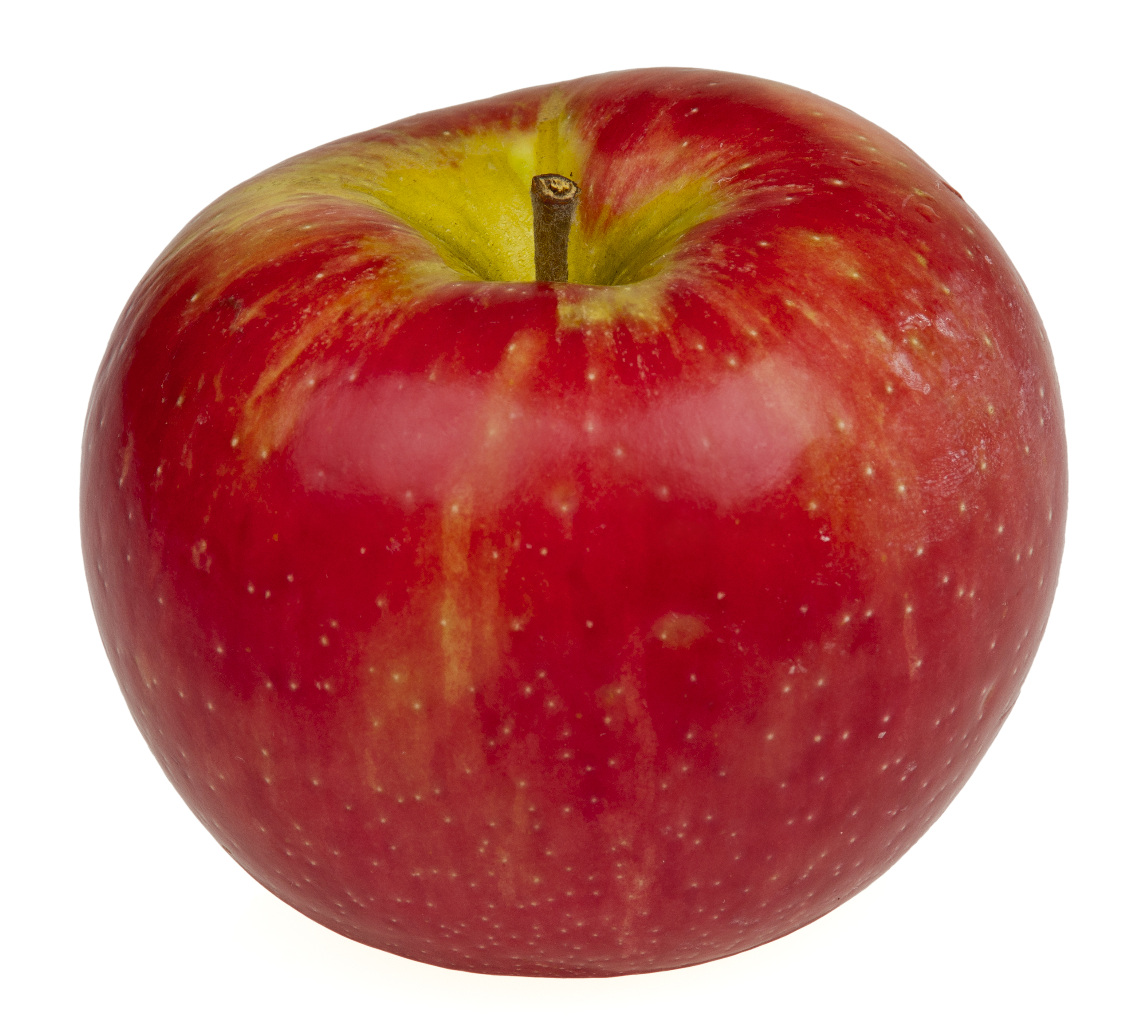 A honeycrisp apple from an organic food farm co-op.